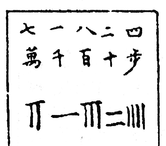 Rod numeral positioning